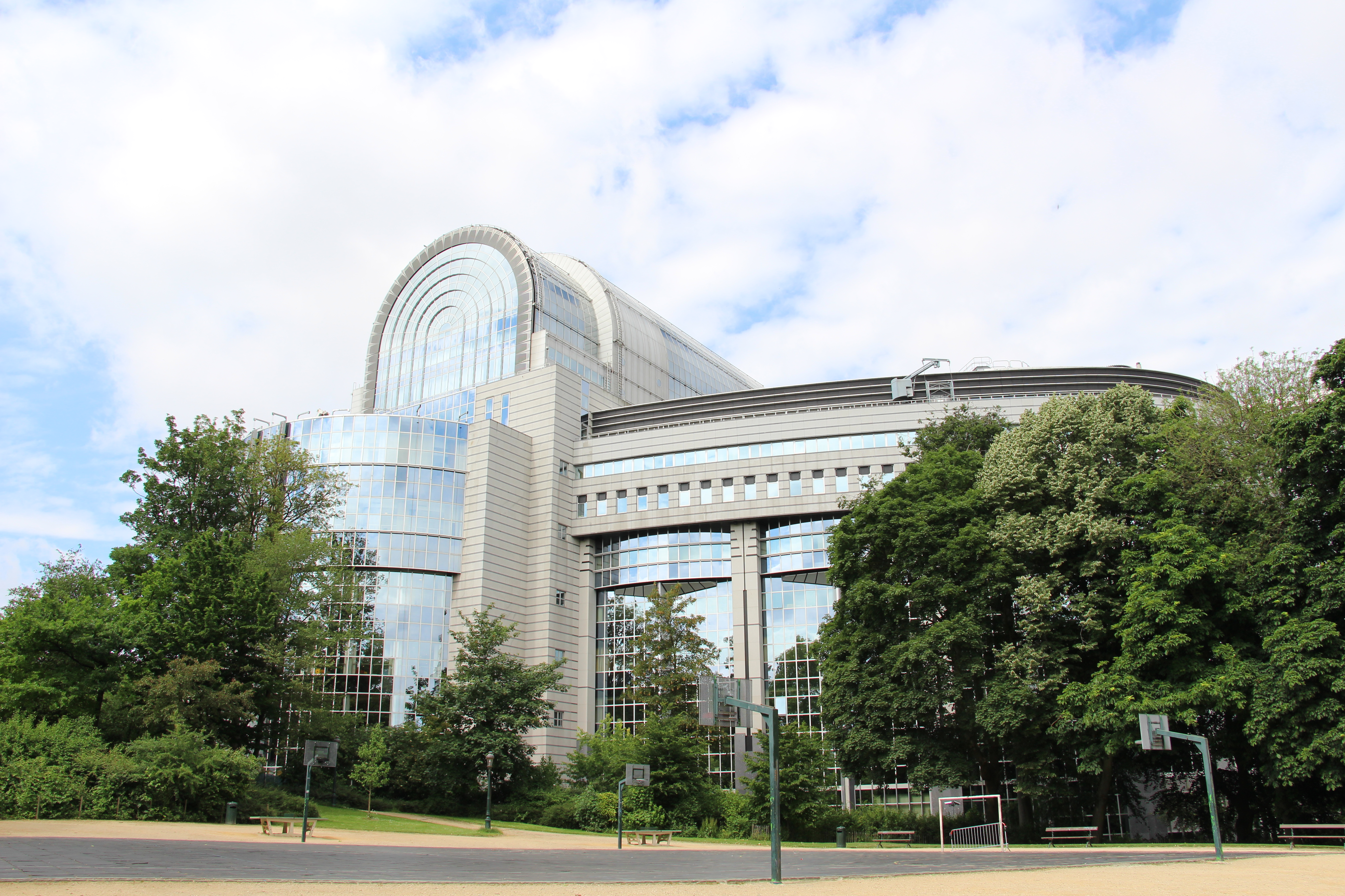 Quartier Européen / Rue Wiertz The Espace Léopold is the complex of parliament buildings in Brussels housing the European Parliament. Paul-Henri Spaak building. Arch. Atelier d'Architecture de Genval, Atelier Vanden Bossche, CERAU s.p.r.l. and CVR 1989-95.